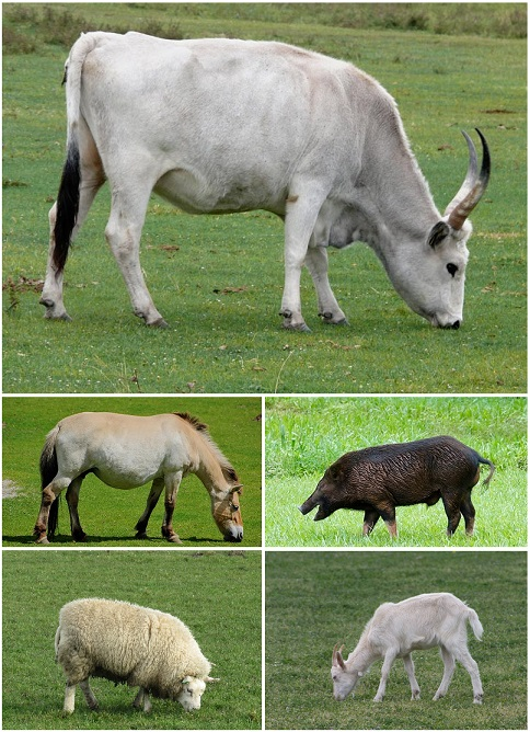 The five crucial Eurasian large domestic mammals described in Jared Diamond's Guns, germs and steel (1997)